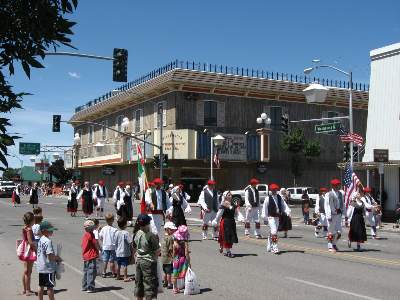 Traditional Basque dress in parade down Winnemucca Blvd during the Winnemucca Basque Festival. Winnemucca, Nevada. USA.